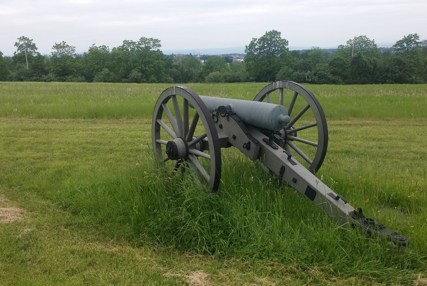 Confederate guns on Benner's Hill: Latimers batallion, Carpenters battery (The Alleghany artillery)